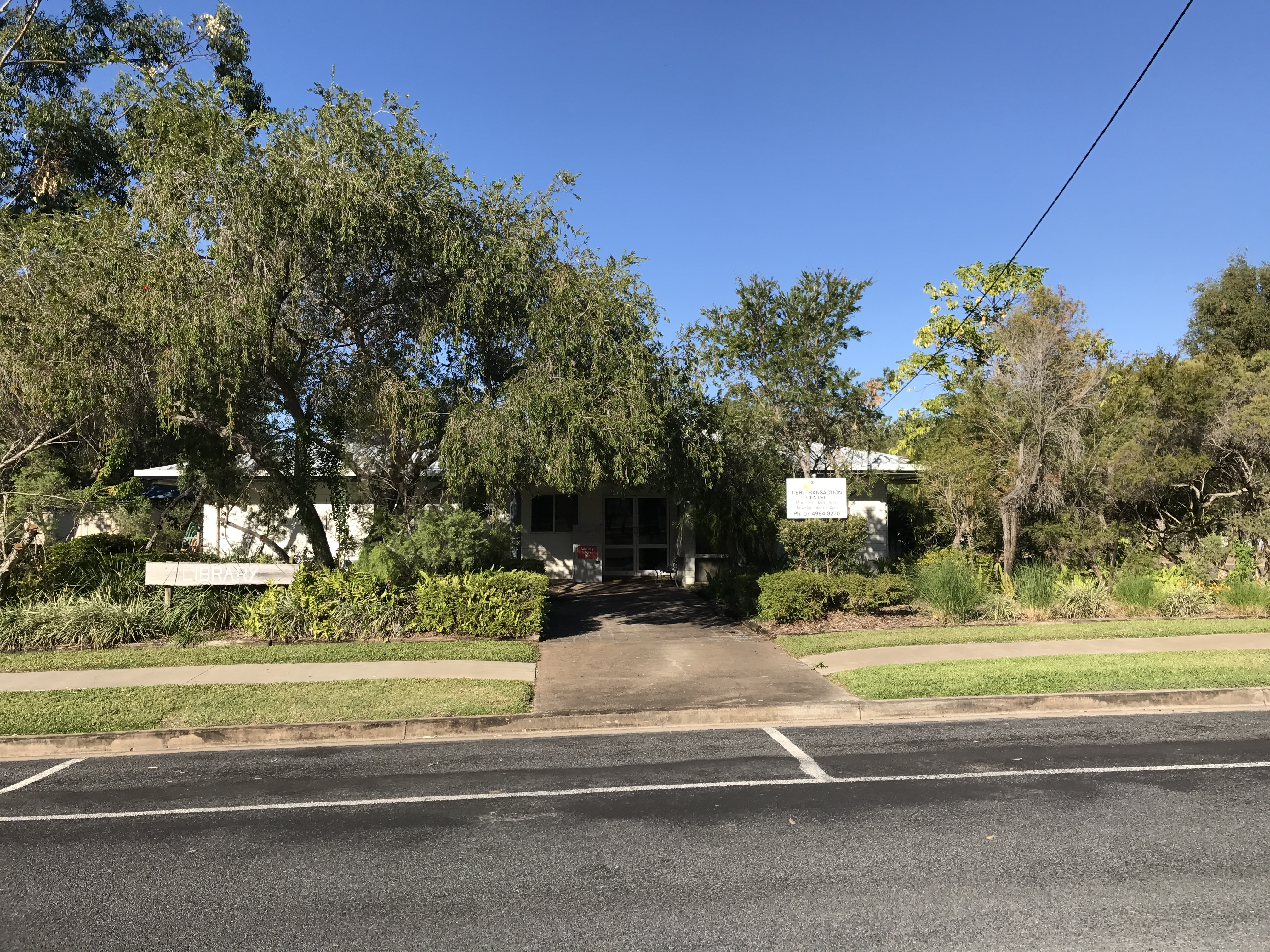 Tieri Library, 2017